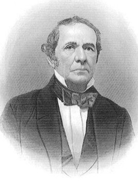 Elijah Risley, Congressman from New York